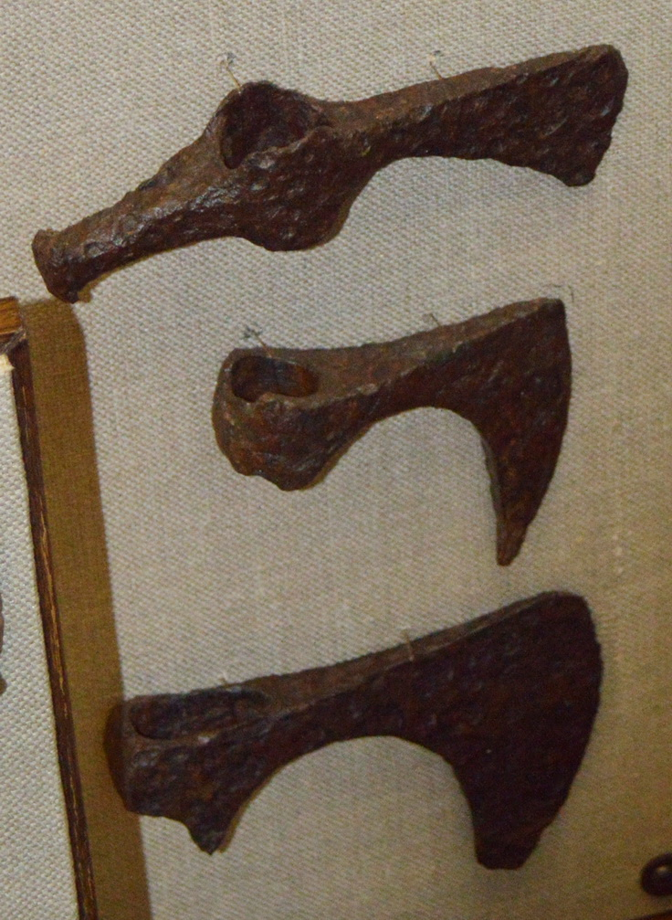 Battle axes, Ancient Rus'.